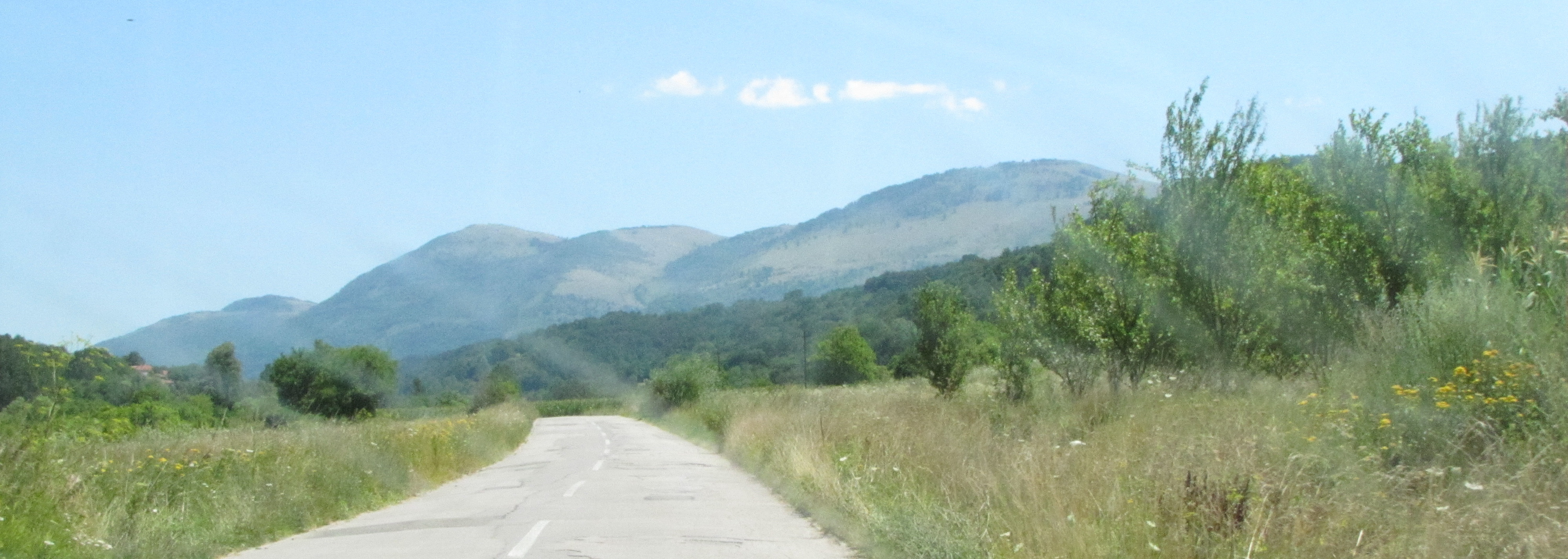 Northern slopes of the Svrljig Mountains (E Serbia). Српски (ћирилица): Северне падине Сврљишких планина (Јаловар, Уланац, Црни врх).